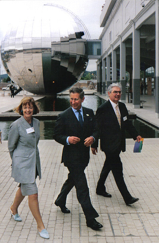 Prince Charles and attendants at the newly opened @Bristol on June 14th 2000.